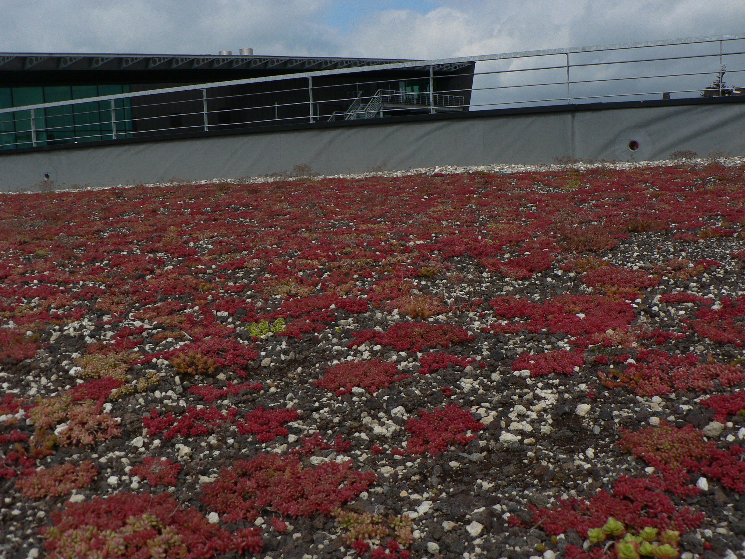 sedum green roof